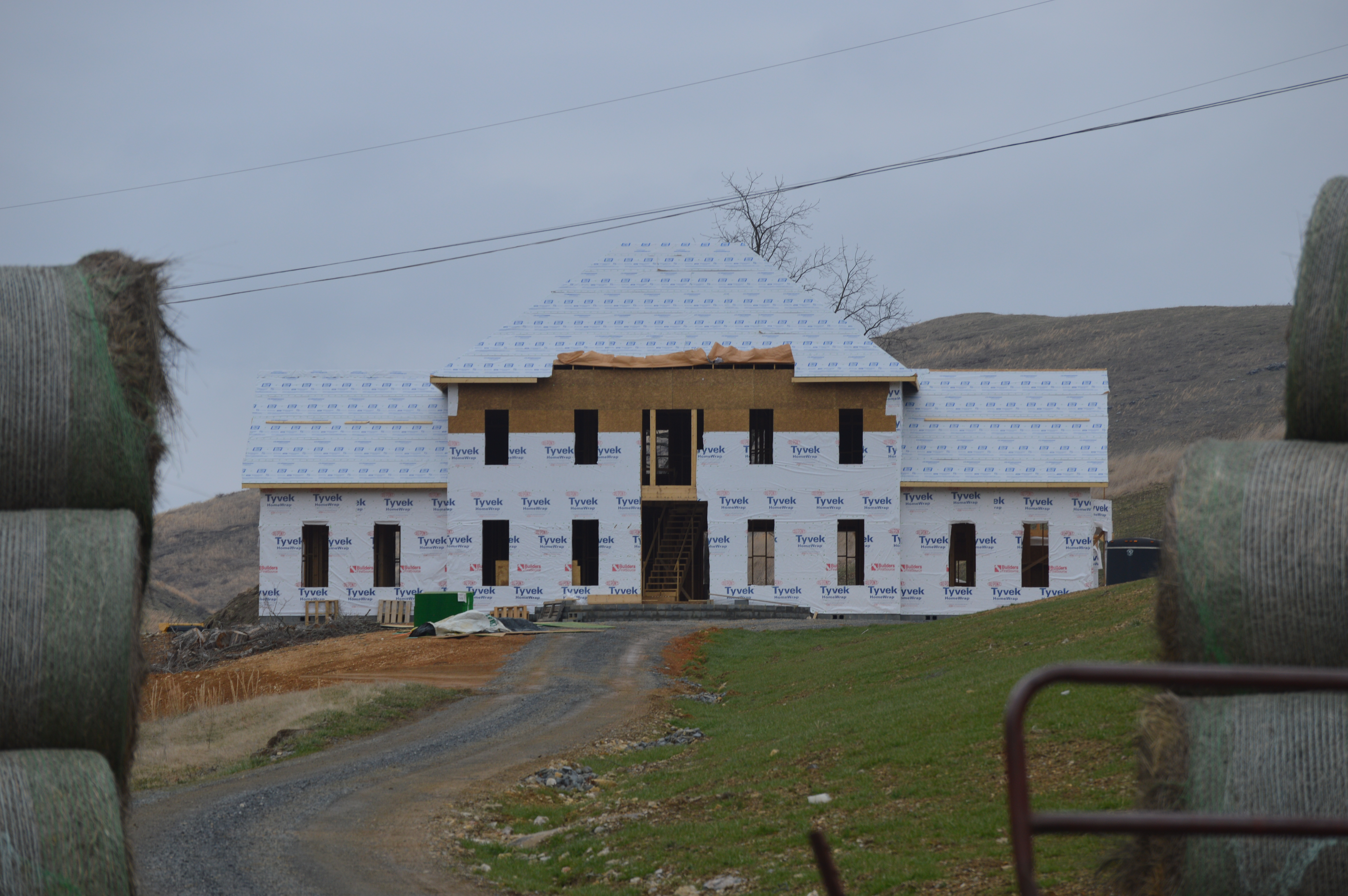 Site of the George Oscar Thompson House, now occupied by new construction, located on Thompson Valley Road just southwest of the crossroads of Thompson Valley in Tazewell County, Virginia, United States. Thompson's house was listed on the National Register of Historic Places in 1982, and although it has been removed, it has not yet been delisted from the Register.